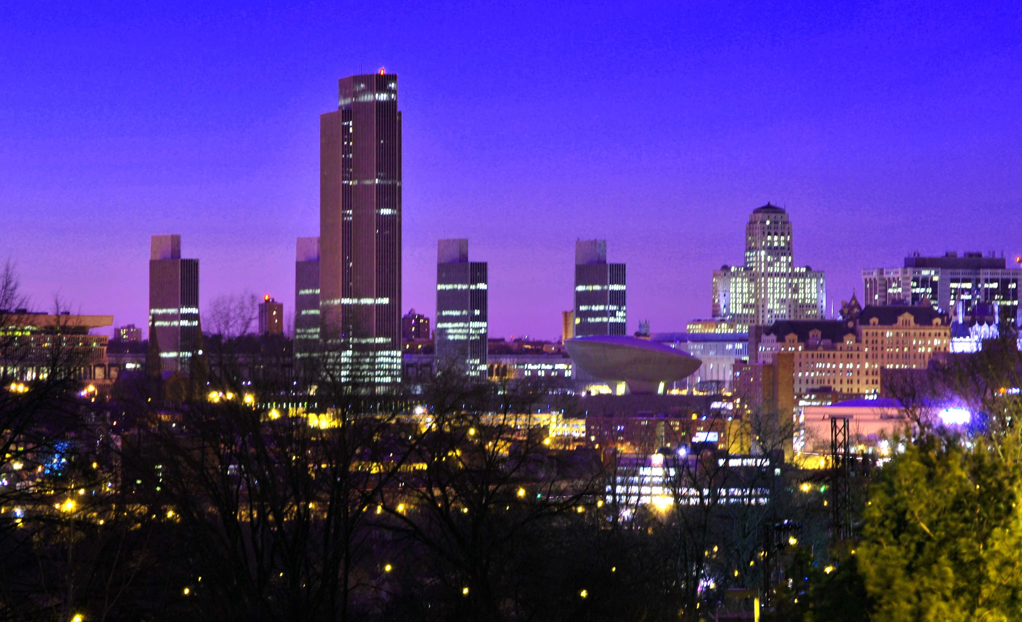 Albany, New York, United States at nighttime